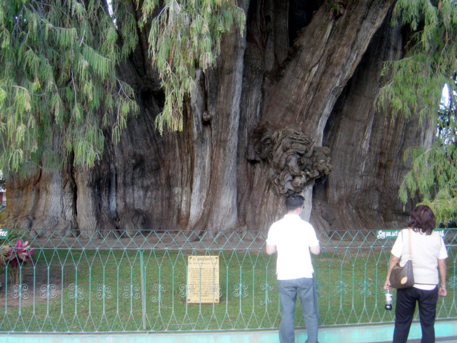 Árbol del Tule